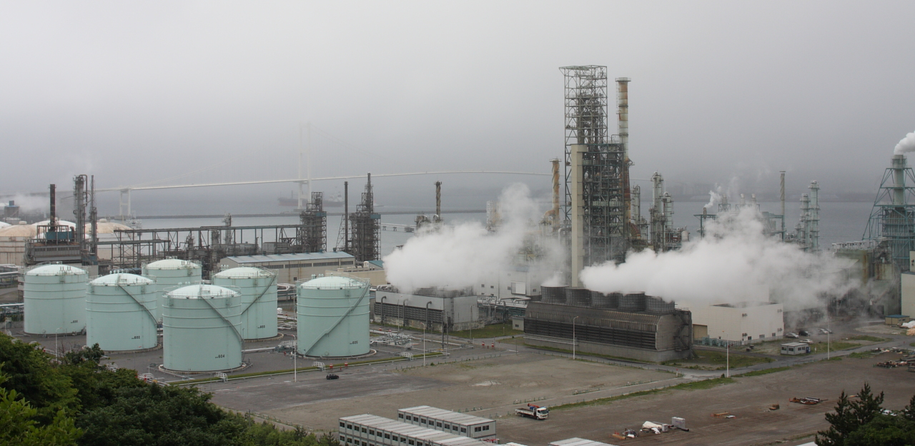 cloudy day in Muroran